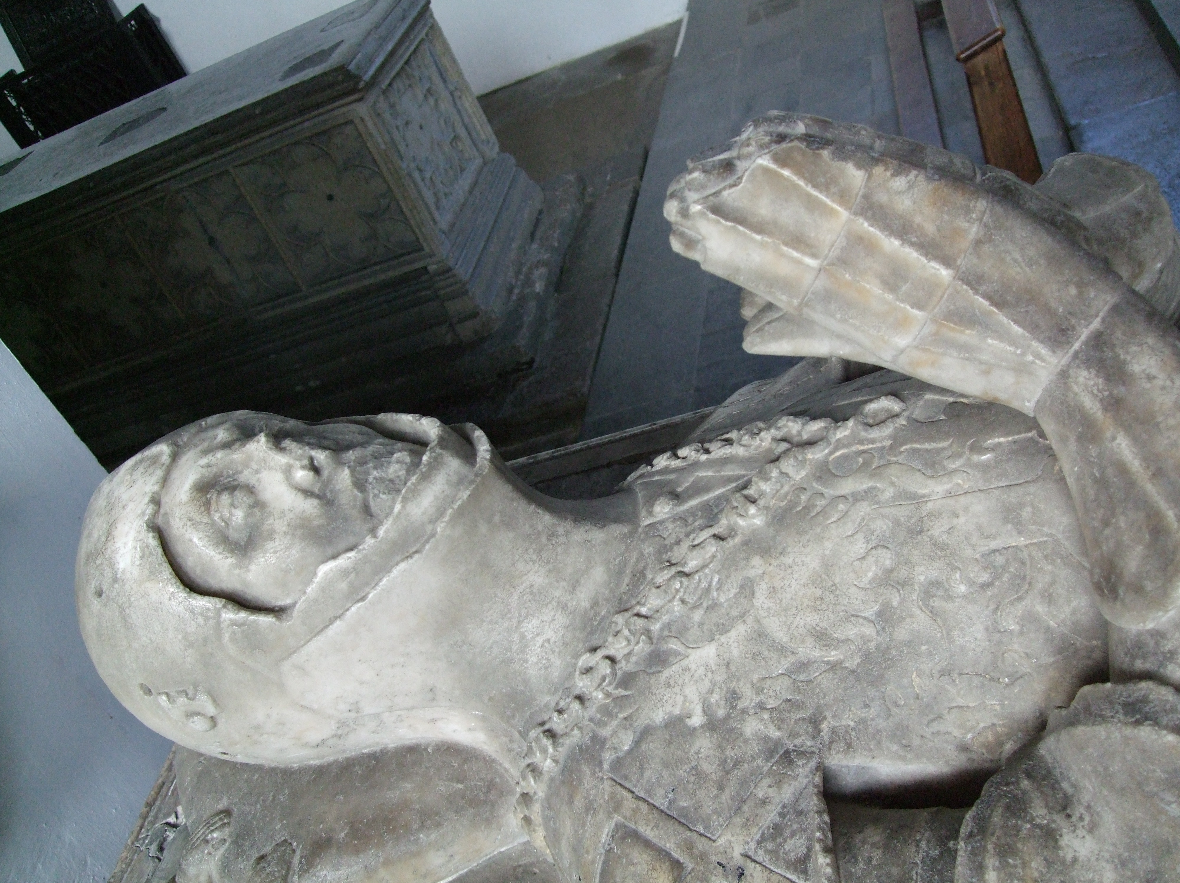 Detail of effigy of John FitzAlan, 14th Earl of Arundel (died 1435), in the Fitzalan Chapel at Arundel, West Sussex